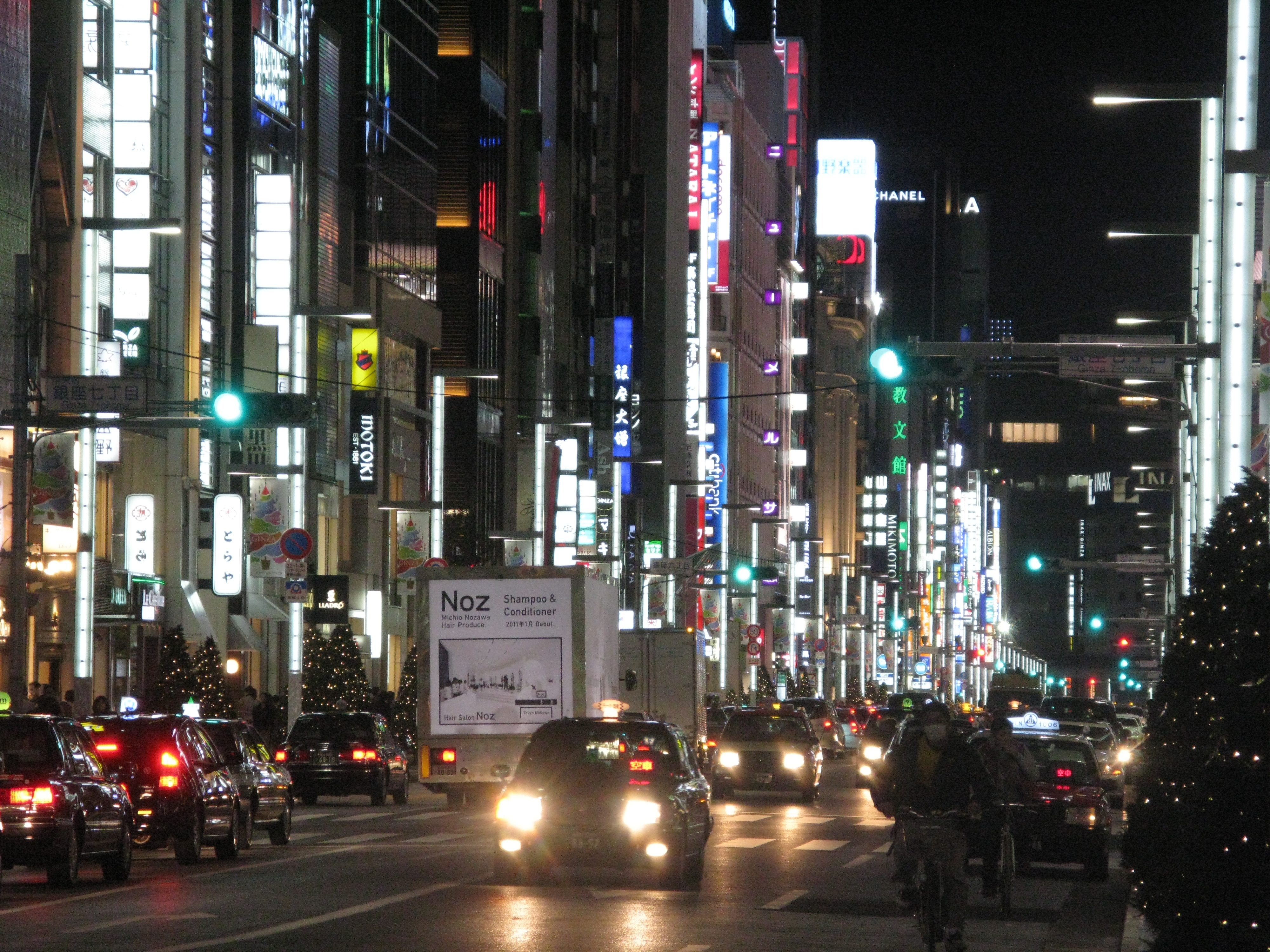 Ginza-Dori Avenue(or Ginza Street) at night